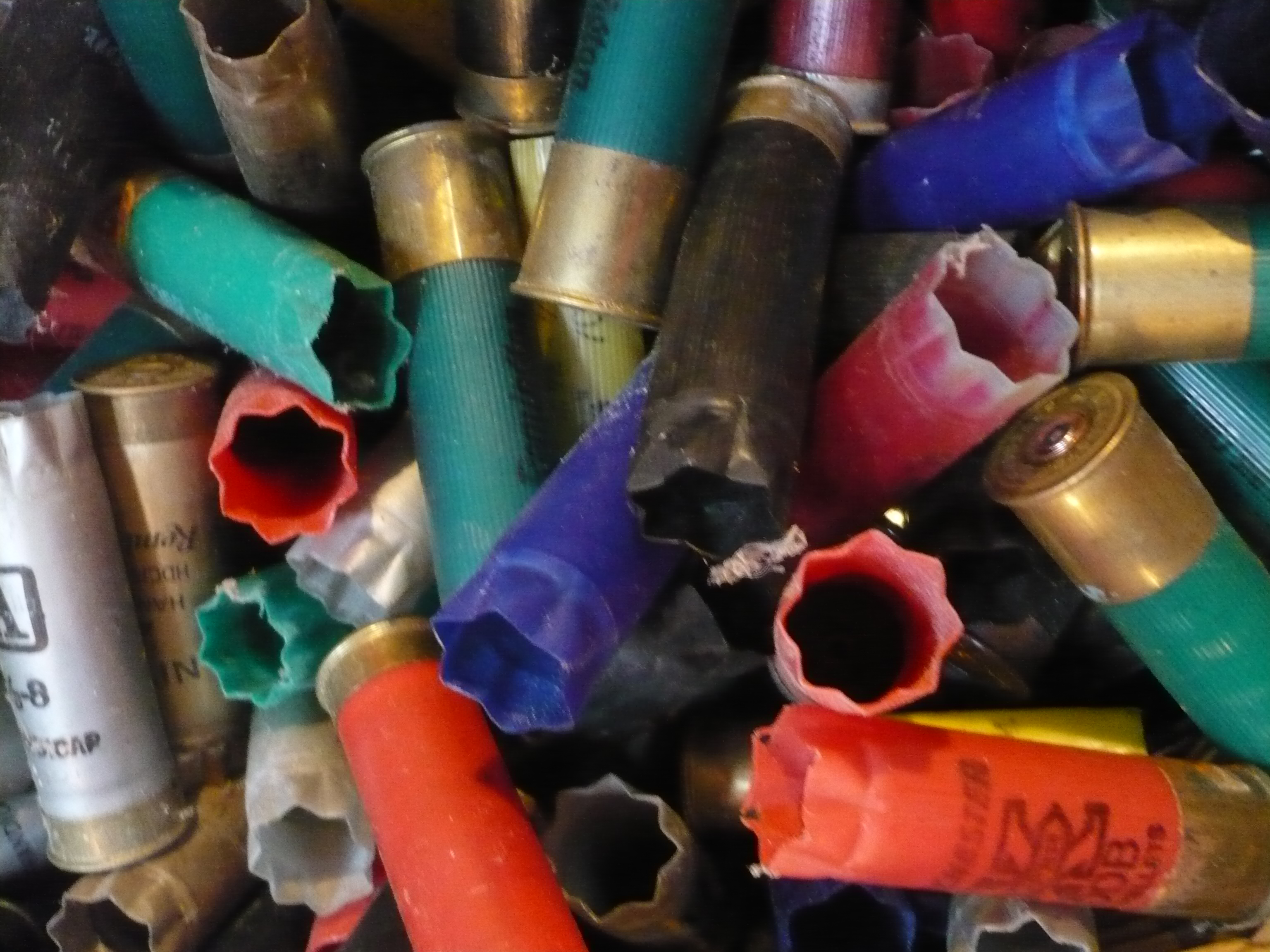 A box of used shotgun shells in an antique store in Ferndale, California.